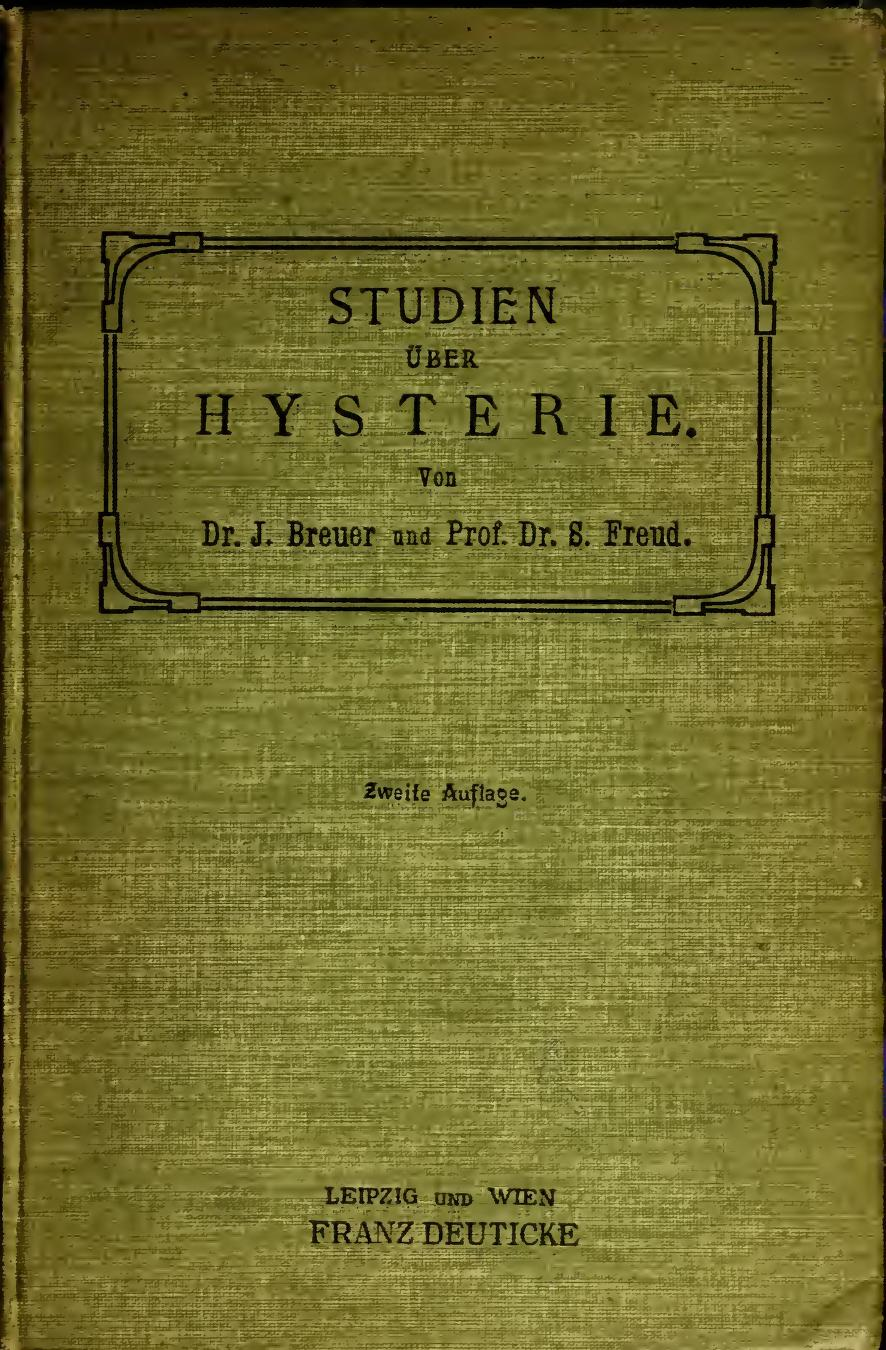 Cover of 1909 reprint of Freud, Studien zur Hysterie